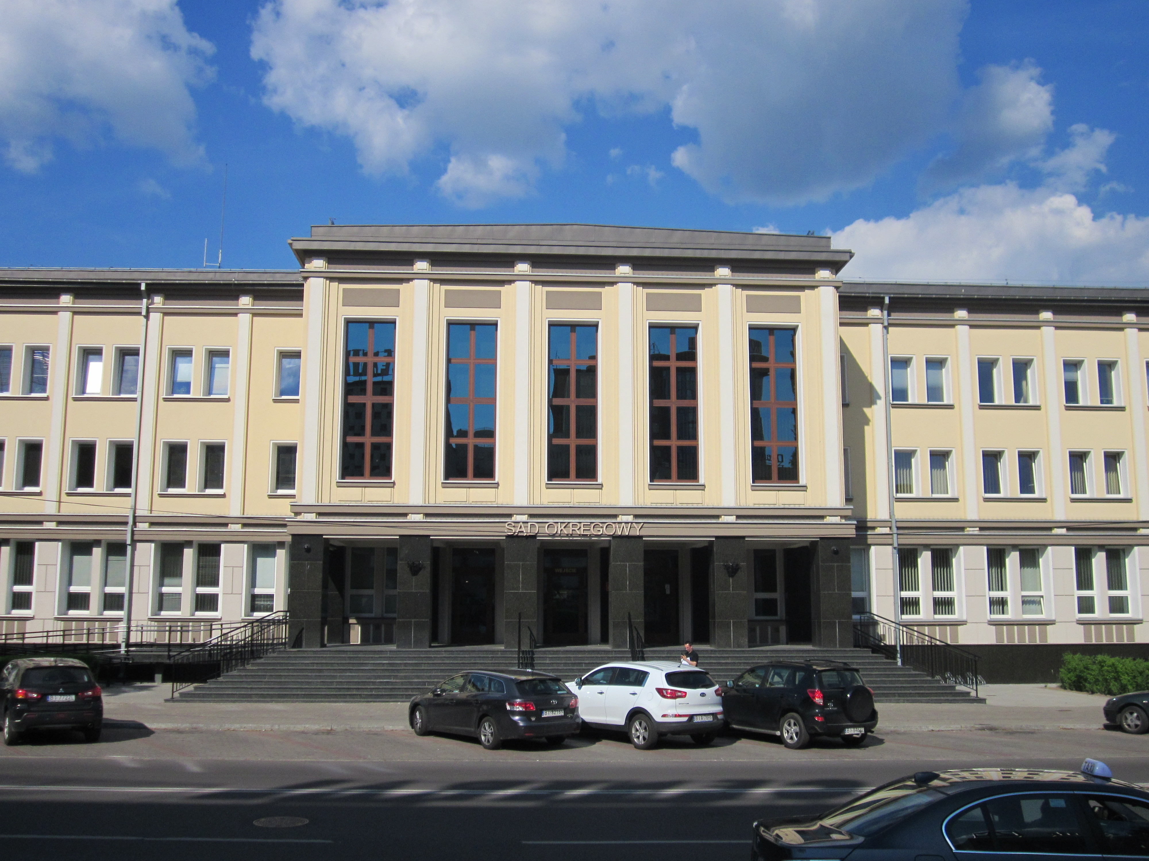 District Court in Białystok, at 1 Skłodowskiej-Curie street.